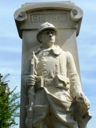 The soldier (poilu) on the monument aux morts at Le Quesnel.